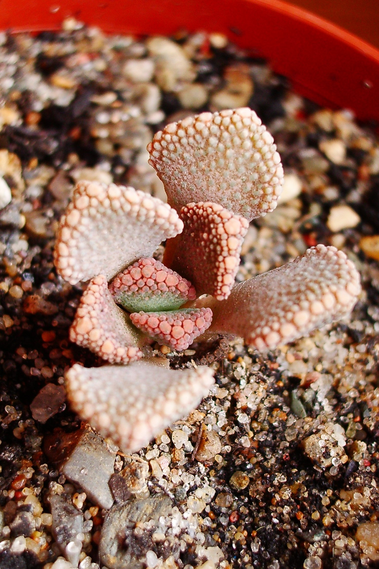 Titanopsis calcarea (plant collection of Ivan I. Boldyrev, Berdsk, Russia)